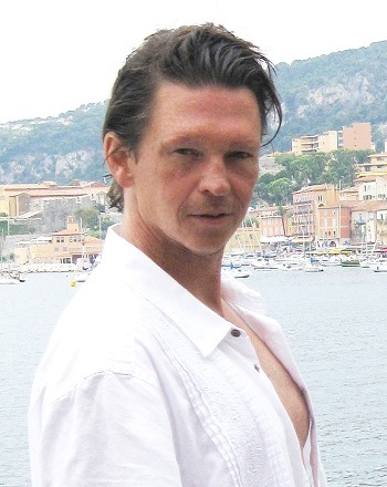 Jimmy McNichol (a.k.a. James Vincent McNichol III) in France. Jimmy McNichol is internationally known, was a top TV & Film star, a teen heartthrob, and one of the most popular actors in the entertainment industry from the late 1970's through the early 90's. He continues to have an international fan base, with many young people discovering his old work and becoming new fans. Jimmy McNichol is currently an active philanthropist and successful real estate developer, who later this year, will be making his comeback to the entertainment industry. Previously, he had moved away from Hollywood to raise his kids, but now that the children are older, he is making his return to television and film, and his sister Kristy McNichol is by his side to help him out whenever necessary. Jimmy McNichol's 20 year absence, and much public anticipation, explains why fans are still selling Jimmy’s autographed photos for $300. Notably, the feature film Jimmy starred in, "Night Warning,” is about to be released on DVD.